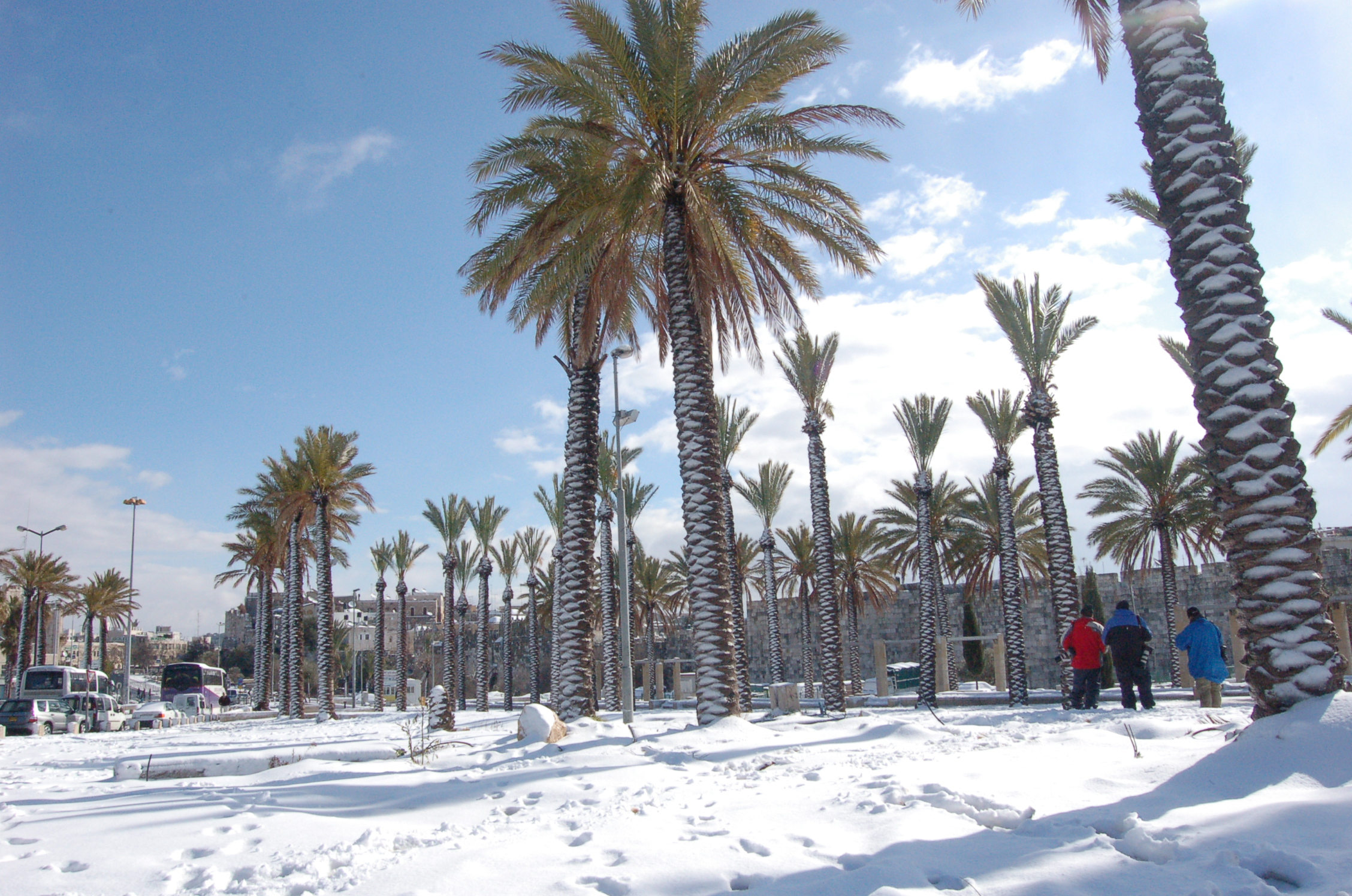 Snowfall in Israel, February 2008.